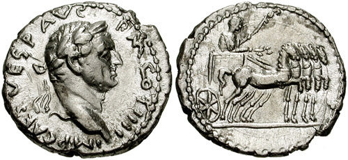 VESPASIAN. 69-79 AD. AR Denarius (18mm, 3.30 gm). Antioch mint. Struck 72 AD. IMP CAES VESP AVG P M COS IIII, laureate head right No legend, Vespasian in walking quadriga right. RIC II 364; RPC II 1931; RSC 643. Good VF. Nicely centered on a large flan for issue. Scarce.